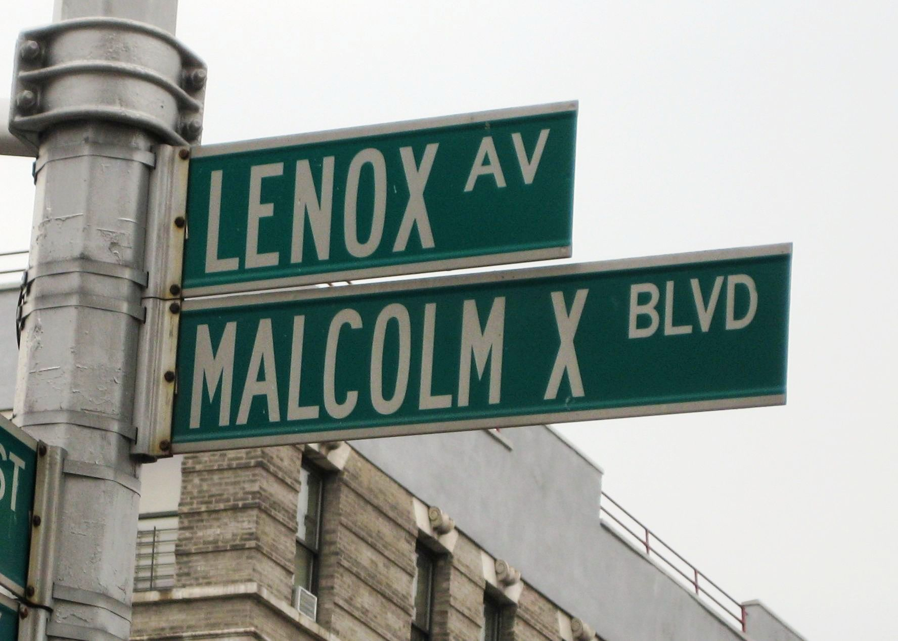 A street sign for Malcolm X Boulevard (Lenox Avenue) in Manhattan, New York City.